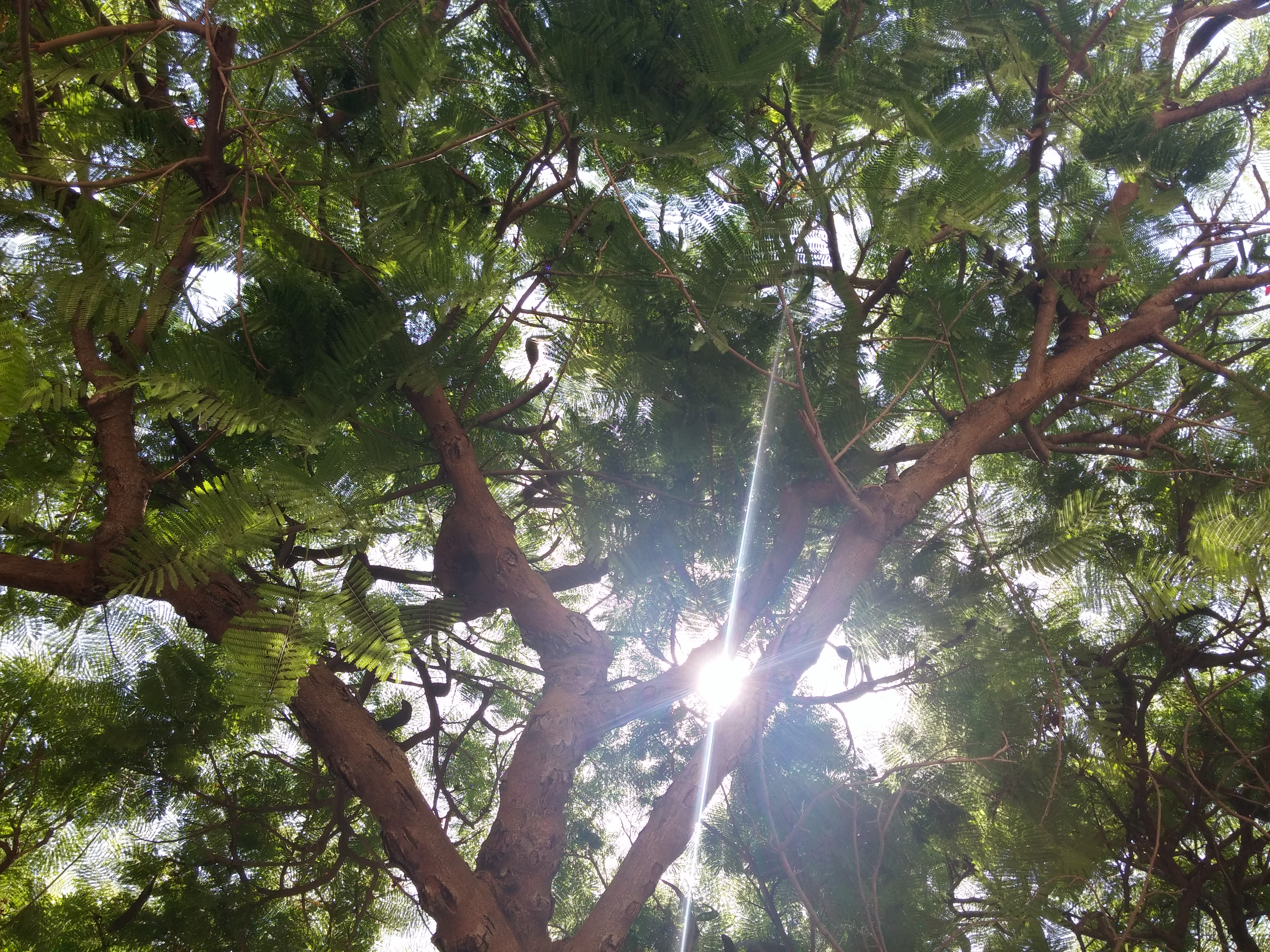 Flora of Israel